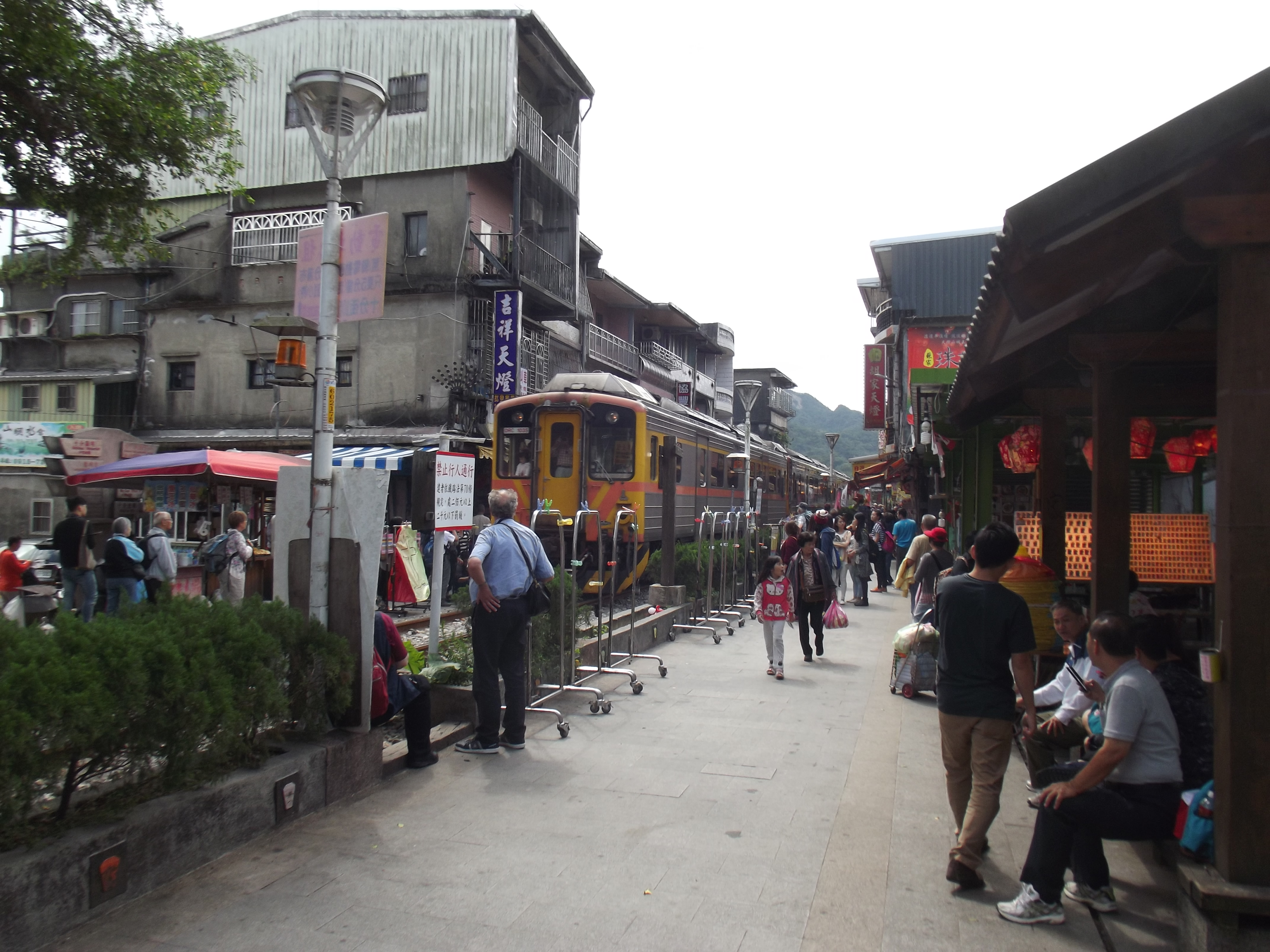 TRA DRC1035 in riding in the streets of Shifen Village.